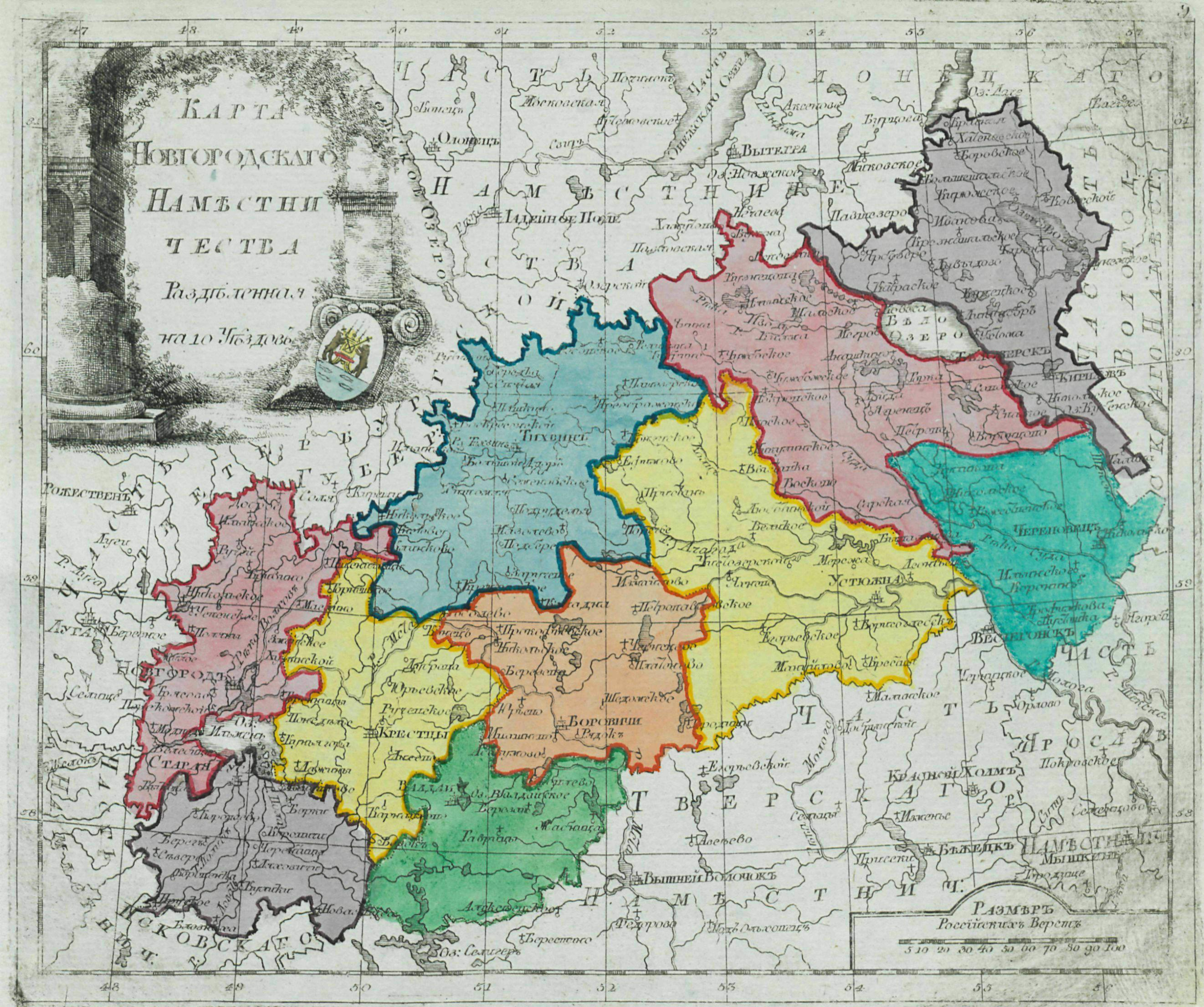 Small atlas of the Russian Empire (1792). Map of Novgorod Namestnichestvo (map 8).